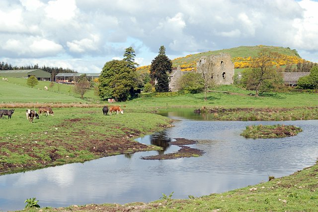 New pond at Creich Cattle grazing and new pond near Creich, castle in background.